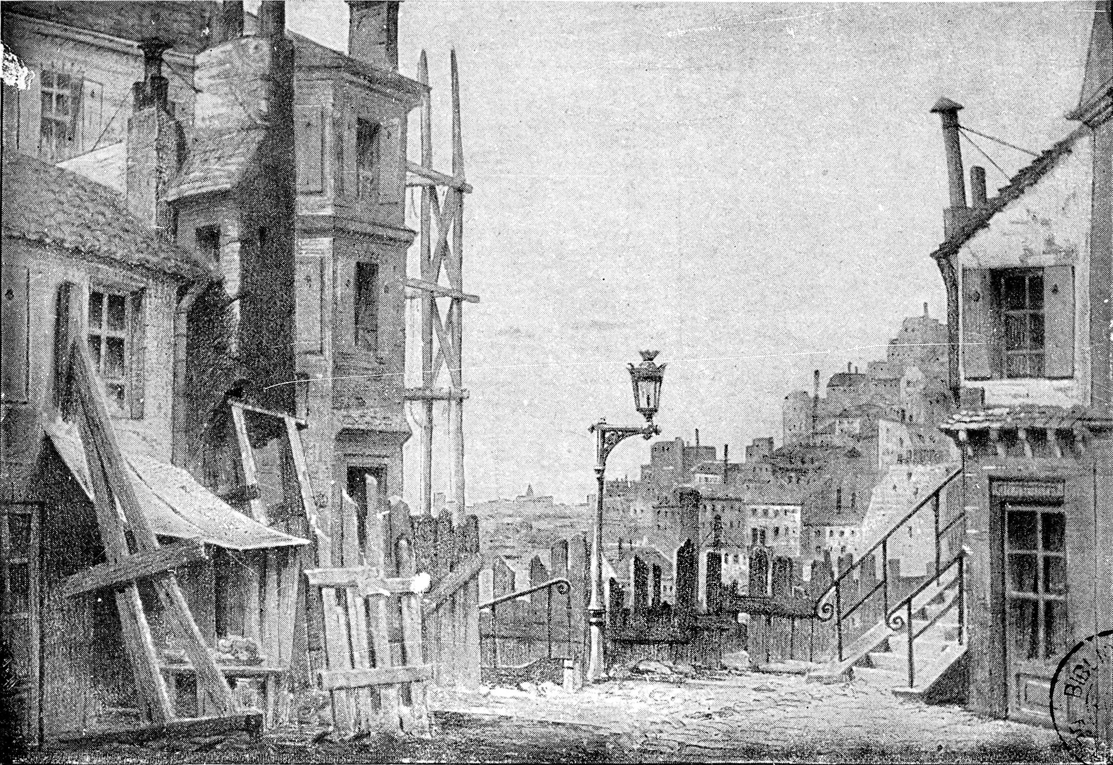 Gustave Charpentier - Louise - Décor du 2e Acte - Cliché de Gossin